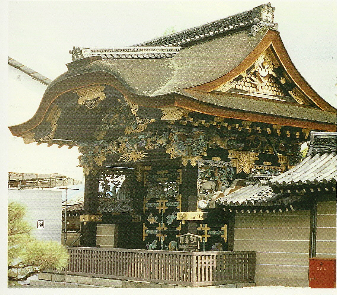 Side 2 of the Karamon Gate at the Hogon-ji Temple complex.